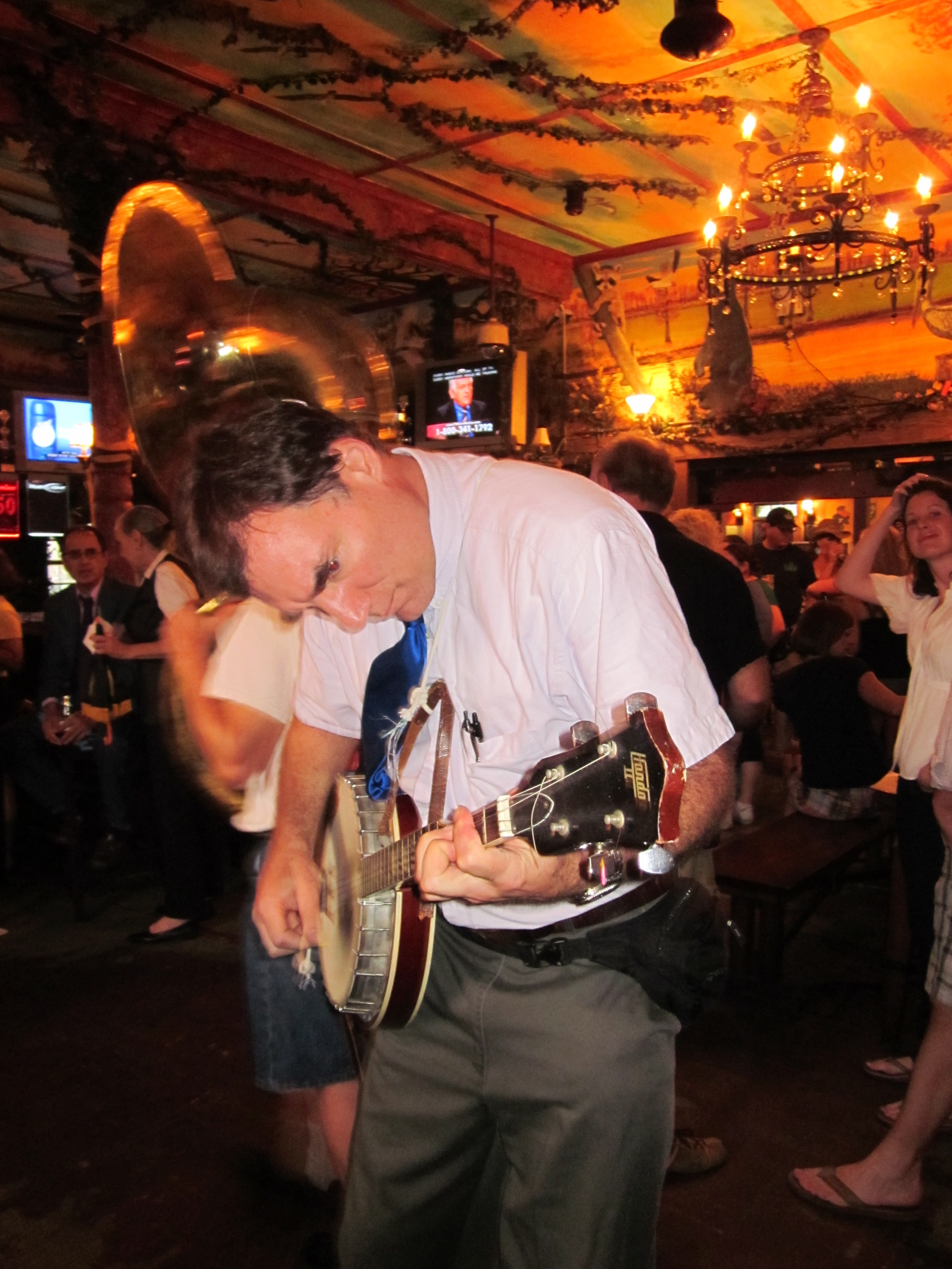 Jazz band playing at "Grits Bar" on Lyons Street, Uptown New Orleans.